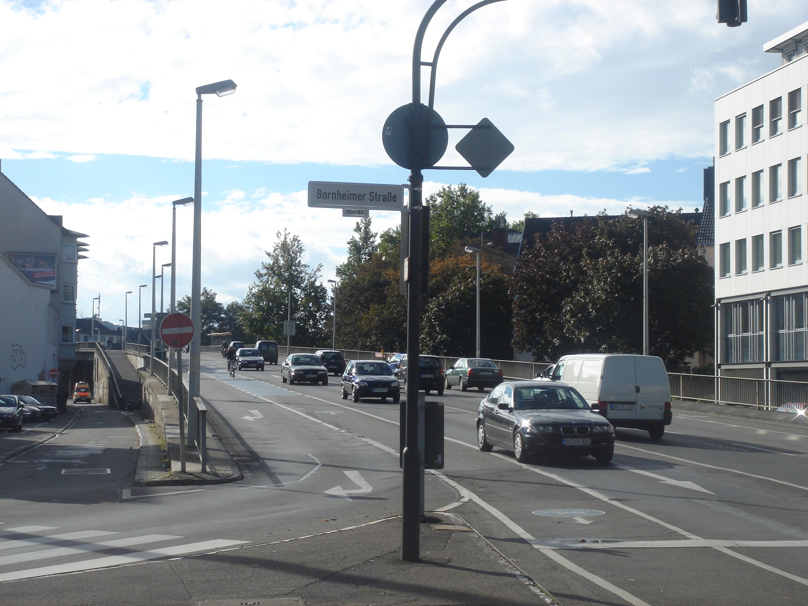 Northern beginning of the Viktoriabrücke in Bonn, Germany.